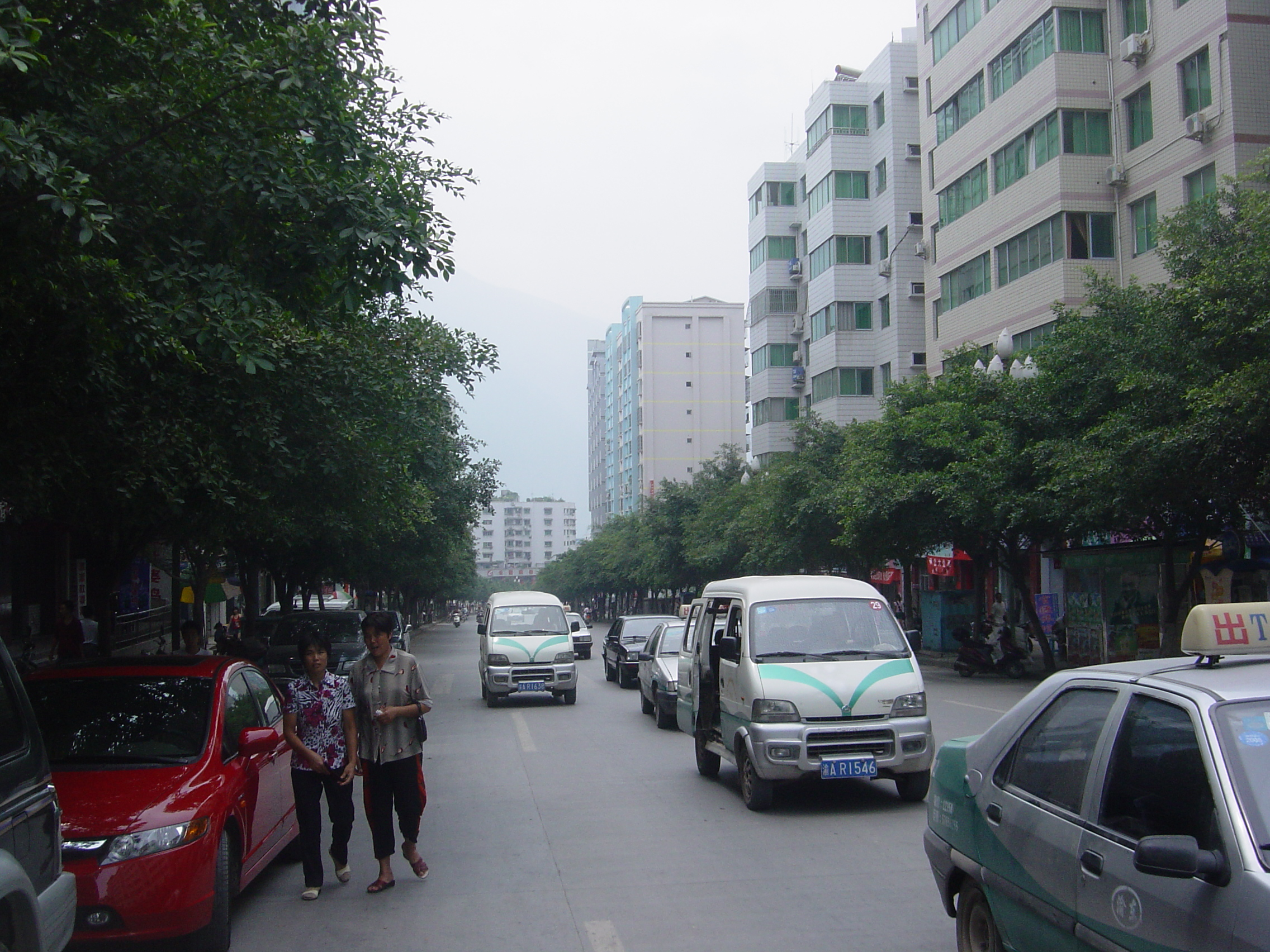 A street view of town in Wushan,Chongqing.This photo has been taken by Mr.Chen Hualin.